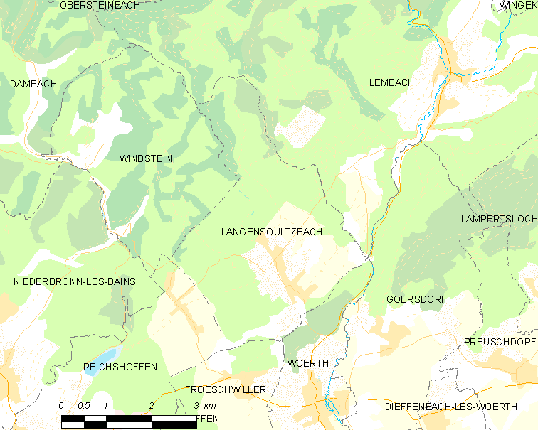 Map of French municipality